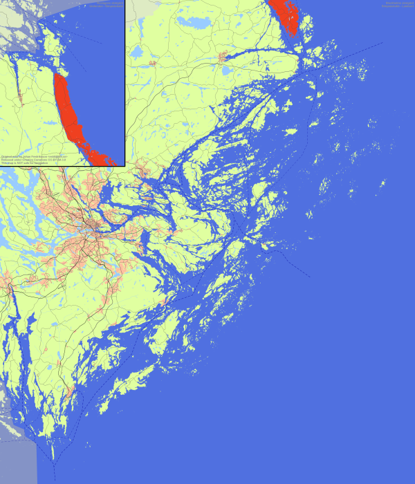 Location of the island Väddö